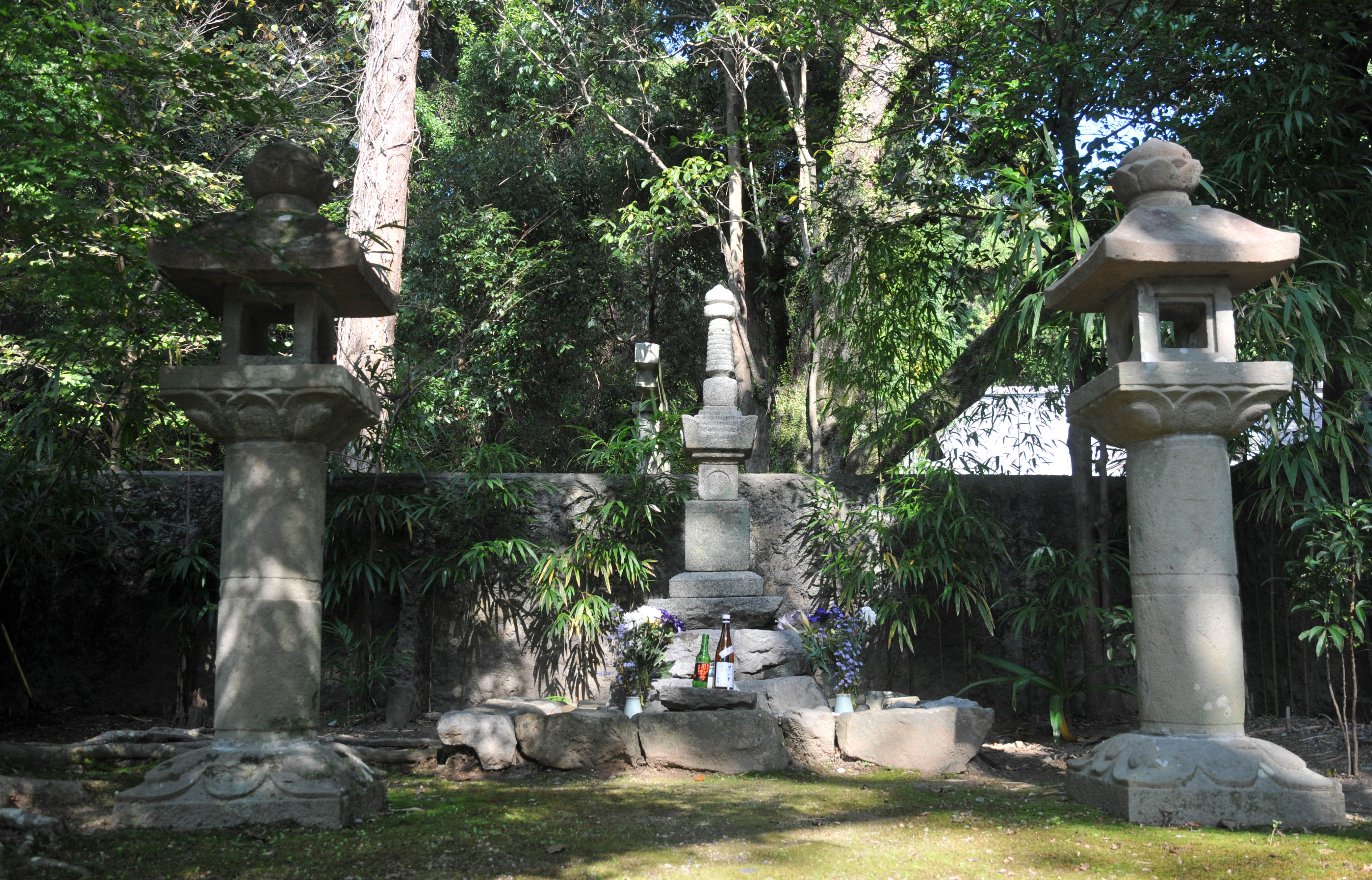 Grave of Chōsokabe Nobuchika, Sekkei-ji